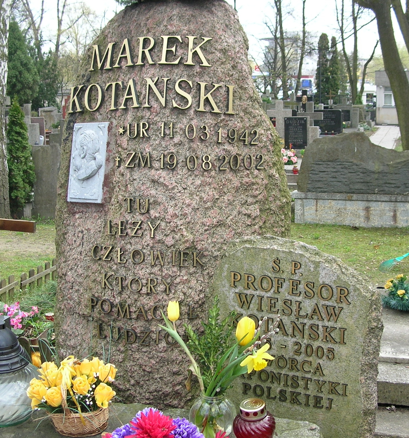 Tombs of Wiesław Kotański and his son Marek Kotański